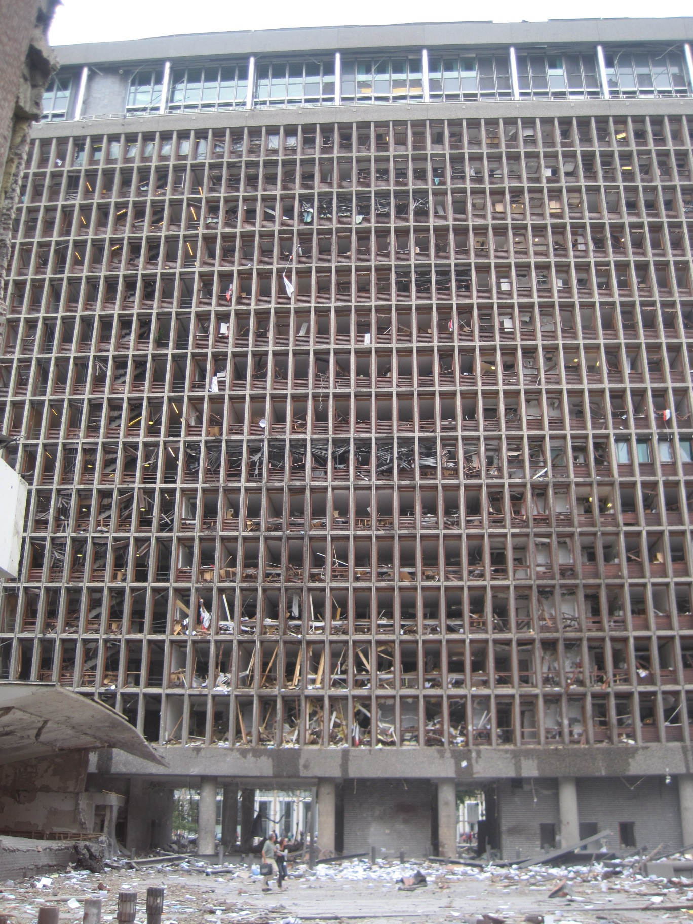 Government building in Oslo after the bombing on 22 July 2011. The bomb car was placed right in front of the beam that is now on the gound, behind the two walking/running persons.